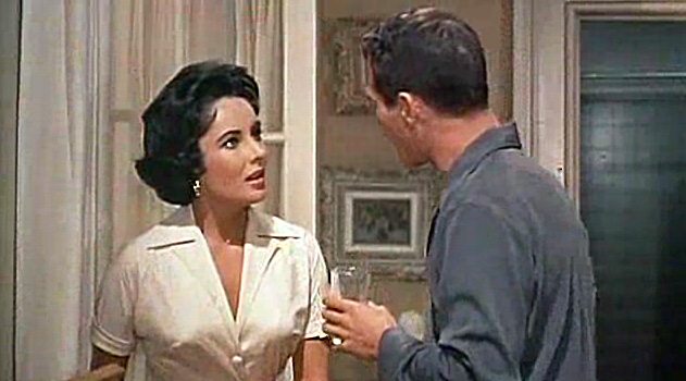 Screenshot of Elizabeth Taylor and Paul Newman from the trailer for the film Cat on a Hot Tin Roof (film)